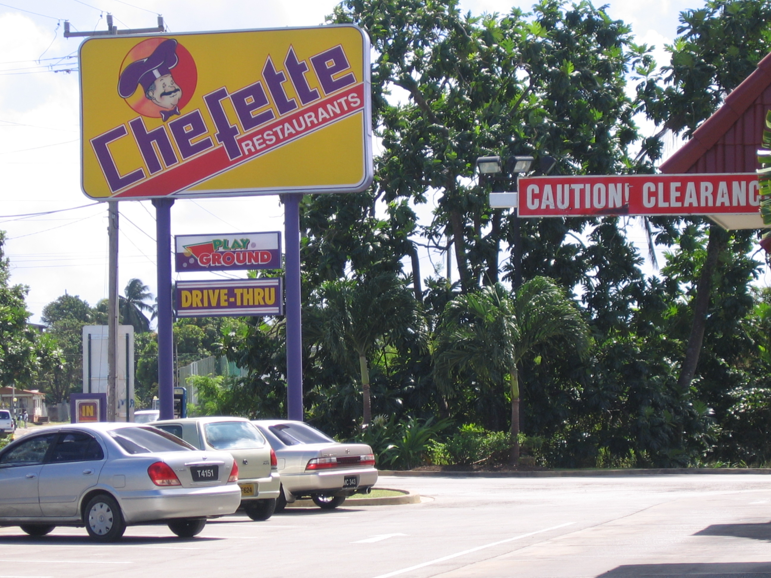 Chefette in Speightstown, Saint Peter Parish, Barbados.